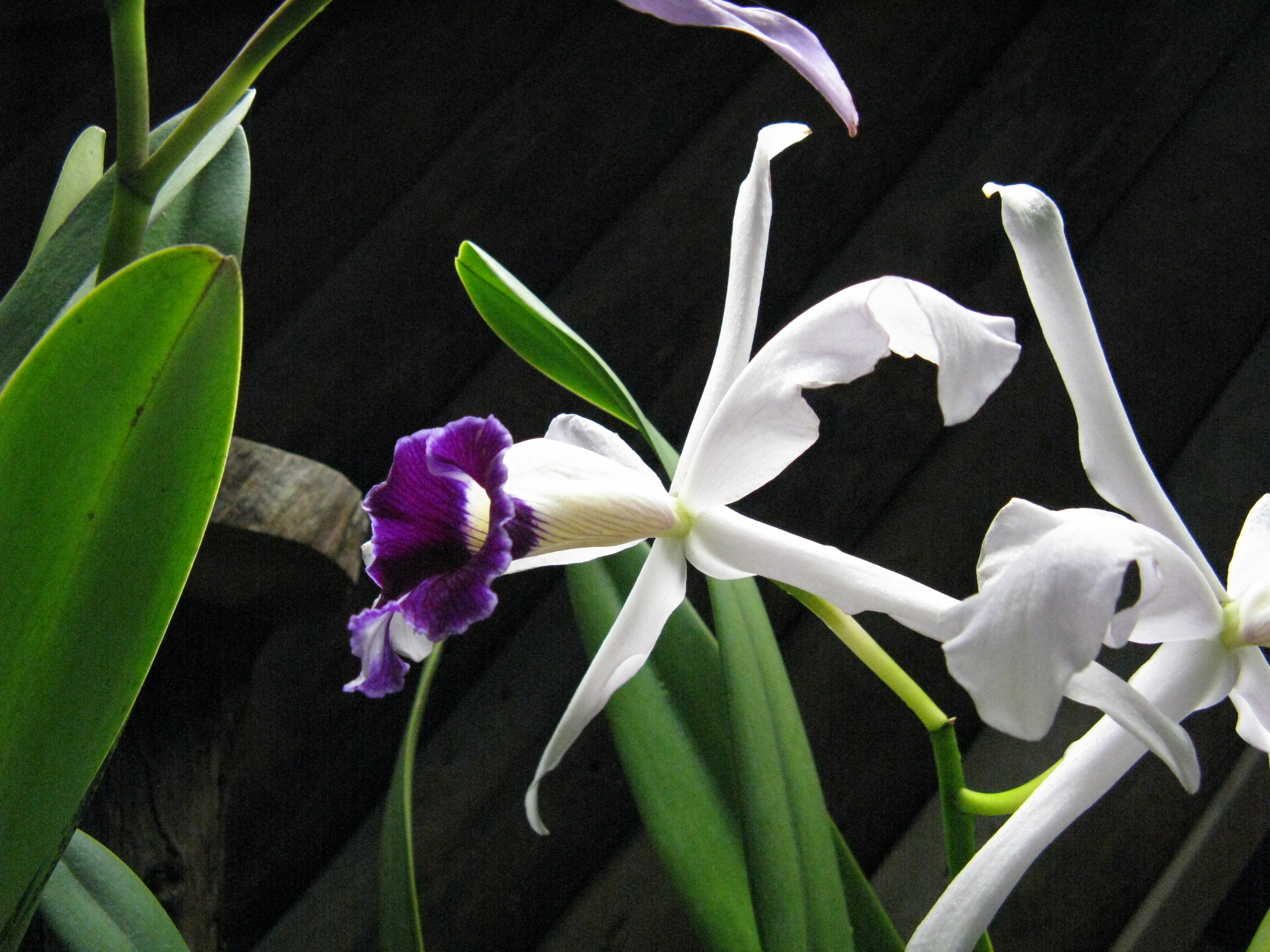 Scientific name Laelia purpurata Place:Osaka Prefectural Flower Garden,Osaka,Japan